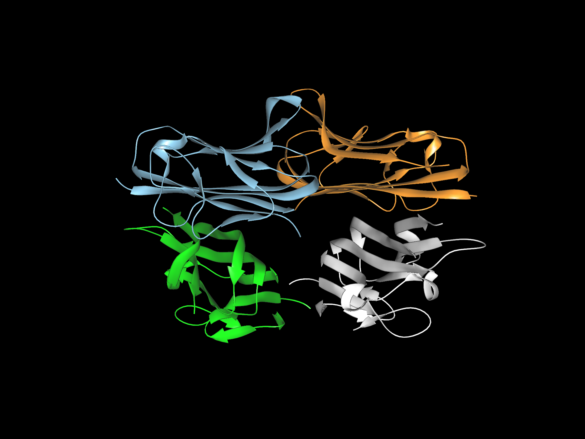 Structural formula of Tumor necrosis factor-alpha (TNF-alpha)